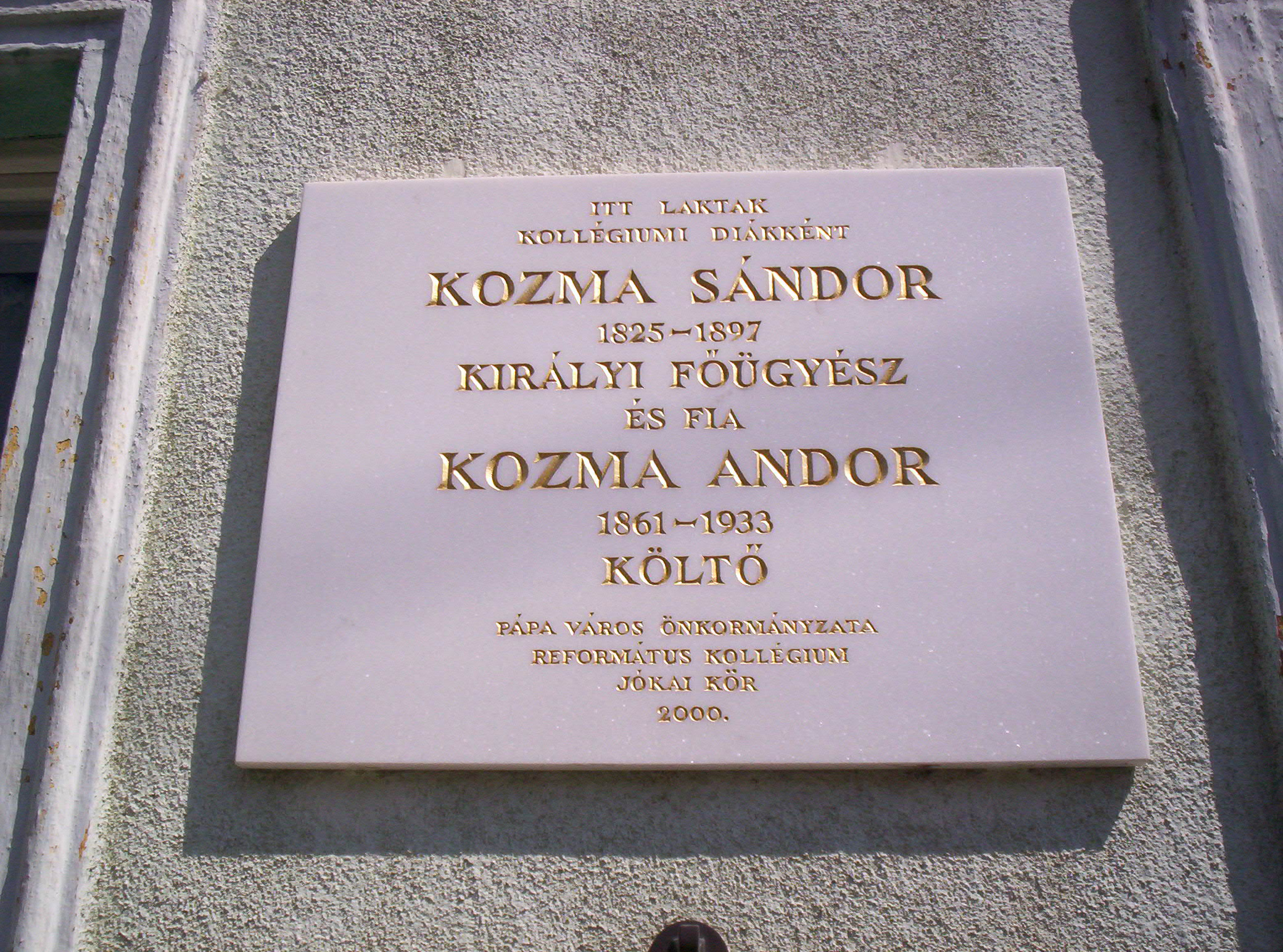 Memorial tablet on Sándor and Andor Kozma's house in Pápa, Hungary (Széchenyi street 10). Inscription: "Here lived as students of the College public prosecutor Sándor Kozma 1825-1897 and his son poet Andor Kozma 1861-1933." Emléktábla Kozma Sándor és Andor pápai házának falán (Széchenyi utca 10).